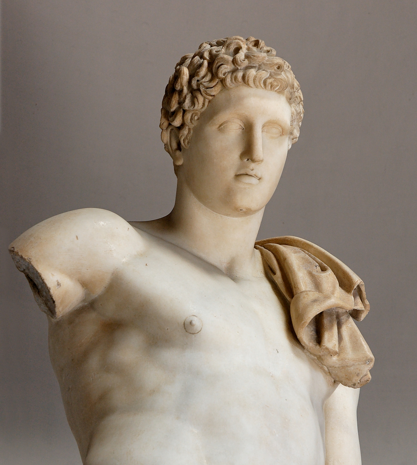 So-called “Belvedere Antinous”, actually a statue of Hermes of the Andros-Farnese type. The identification of Hermes is justified by the traveller's cloak, the bearing of the god and by comparison with copies found on graves, stressing Hermes's role as psychopompus (conductor of souls). Roman artwork, Hadrian's era, copy or a Greek bronze original of the 4th century BC.